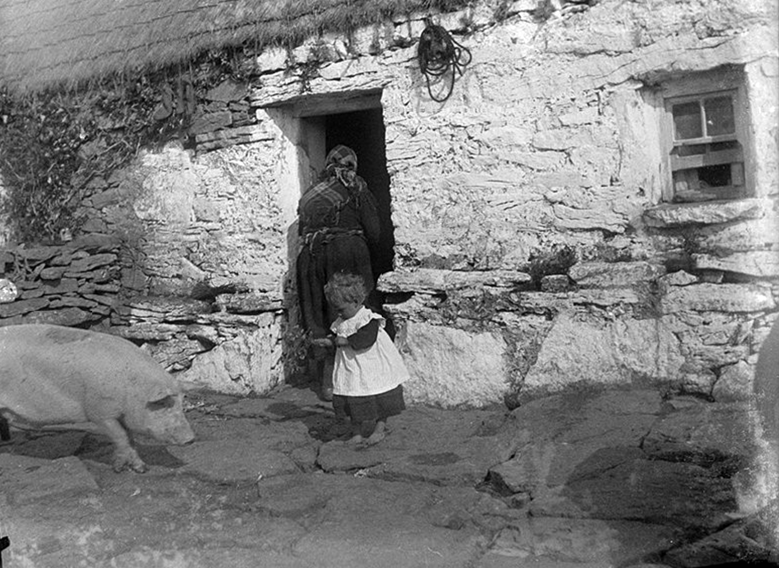 Photograph taken by John Millington Synge in Inis Meáin. According to Lilo Stephens in My wallet of photographs: the collected photographs of J. M. Synge (Dublin, 1971), the photograph represents the front of Pat Mac Donagh’s cottage in which Synge stayed on Inis Meáin. Stephens identifies the young child wearing a dress and pinafore as a boy, Michaileen, dressed as a girl according to island custom to prevent his being stolen by the fairies. Original donated to the Trinity College in Dublin by the Synge family. Item reference : IE TCD MS 11332.